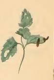 Stainton’s Natural History of the Tineina (1855–1873): Cauchas fibulella